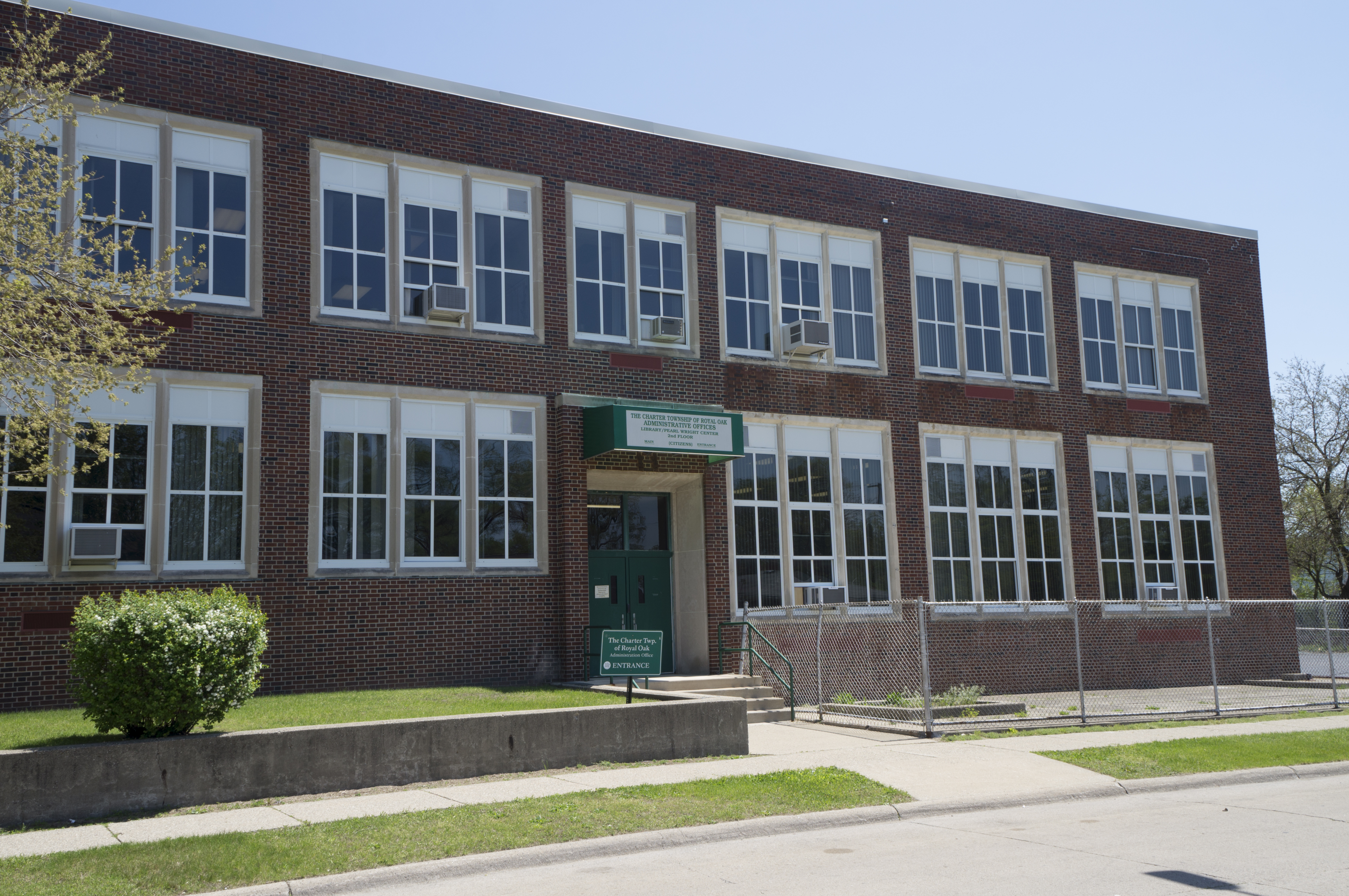 The administrative offices of Royal Oak Charter Township, Michigan